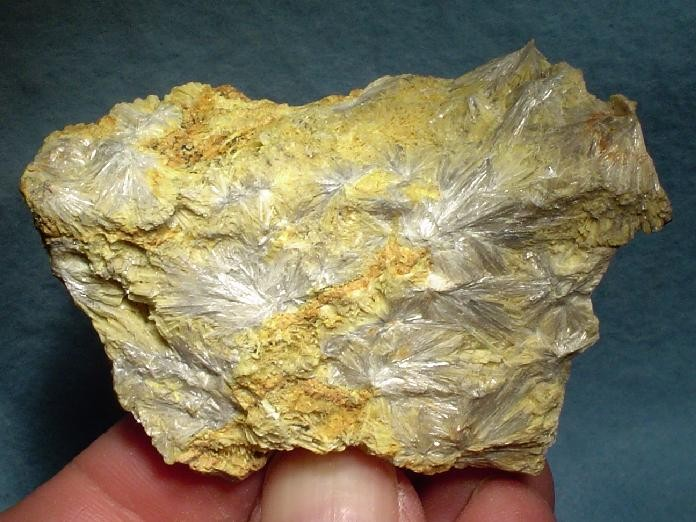 Valentinite Locality: Djebel Senza (Sanza mine; Sansa mine; Sensa mine), Ain-El-Bebouch, Constantine Province, Algeria (Locality at ) Size: 6.9 x 4.4 x 3.3 cm. Valentinite is an uncommon antimony oxide. One would usually not expect a gray metal to form such fine, starburst-like, radial clusters of highly lustrous, pearlescent, prismatic crystals richly distributed on all sides of the matrix. This superb and rich specimen is from an uncommon locale - the Sanza Mine in Algeria. Weighs 167 grams. Old material.